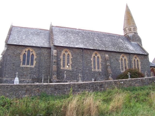 St Llwchaiarn's. St Llwchaiarn's Church, just off the A486 in New Quay.